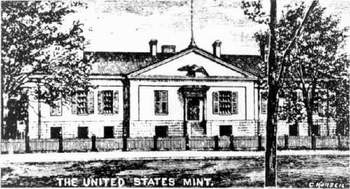 The Charlotte Mint (1838-1861) building, from an 1850 drawing.